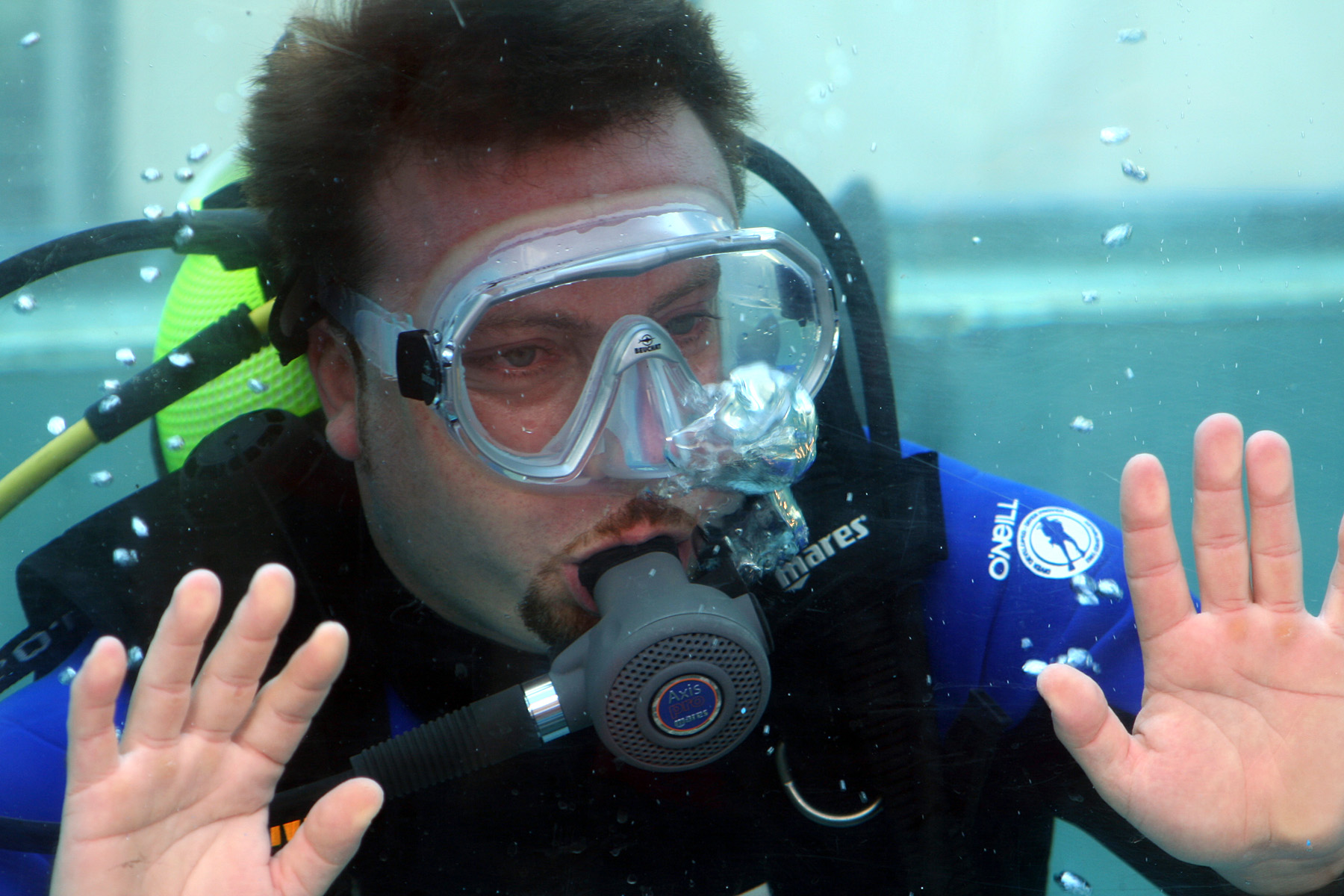 Diver in Sassuolo (MO), Italy